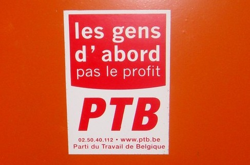 Workers Party of Belgium propaganda in Brussels